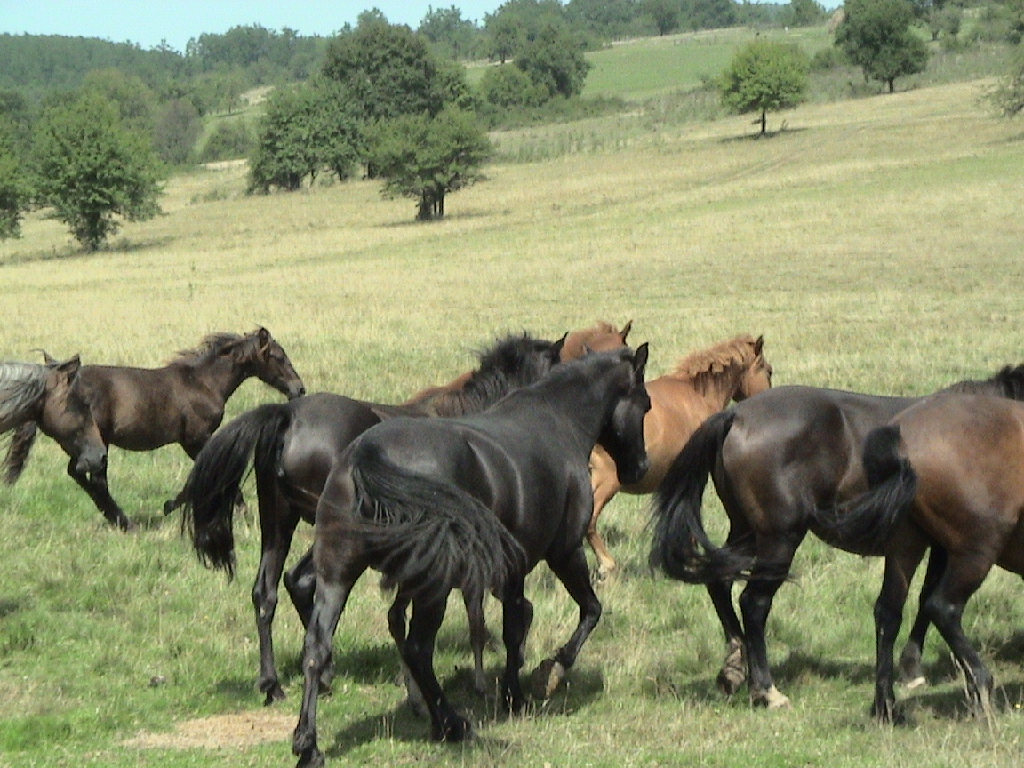 Bosnian Pony